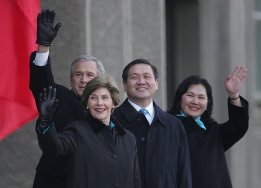 President and First Lady Bush during their November 2005 visit to Mongolia, with Mongolian President Enkhbayar and his wife, Mongolian First Lady Onongiin Tsolmon.